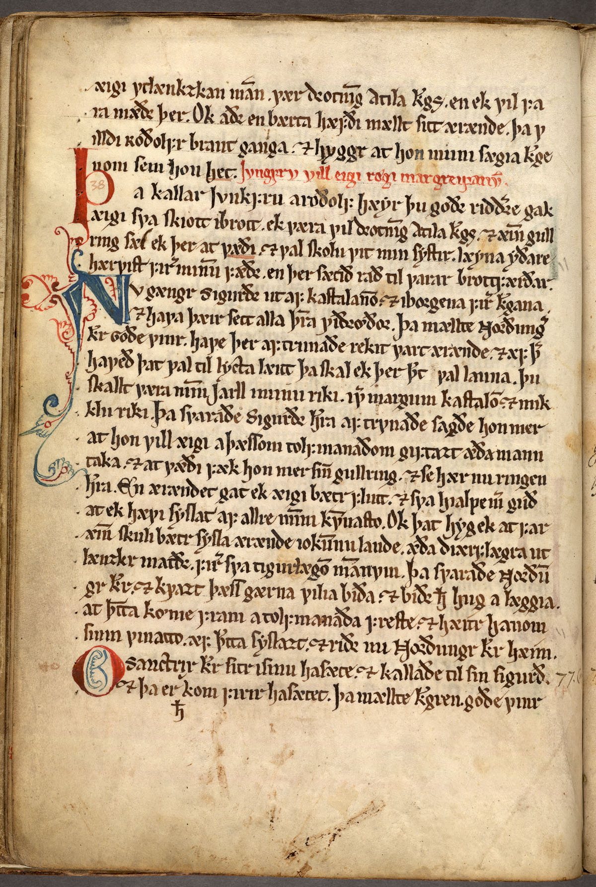 The legend about Theoderic the great. Holm perg 4 fol, bl. 11v.